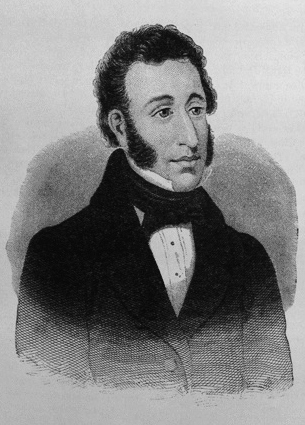 John Banim